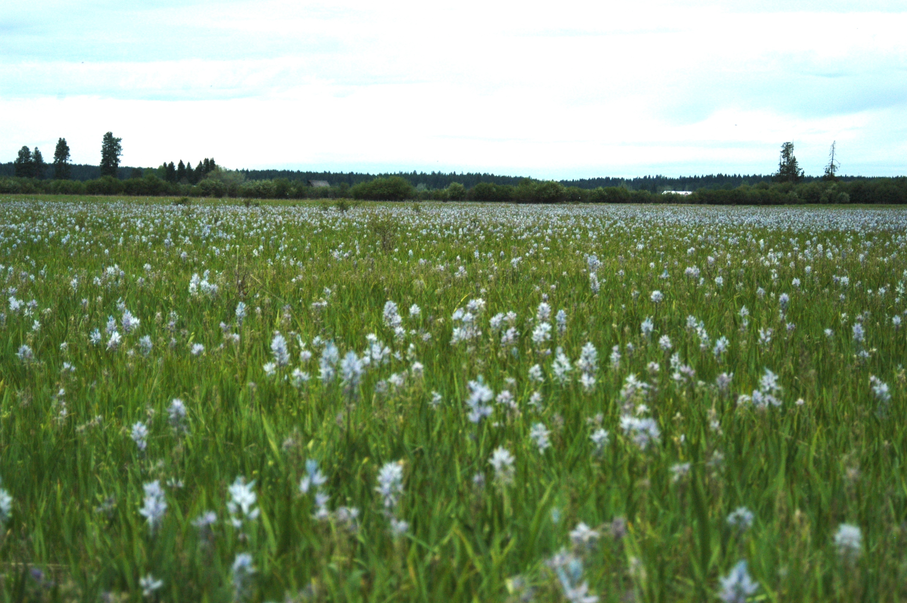 Since time immemorial the Nez Perce have harvested the camas bulbs found at Weippe. With the arrival of settlement, camas fields were used for farming. On these fragments of the prairie, camas still grows. In 1805, close to this spot, Captain William Clark met the Nez Perce for the first time as the expedition emerged from the Bitterroot Mountains.